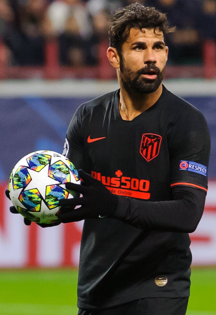 Association football player Diego Costa on 1 October 2019, during the UEFA Champions League match between Atlético Madrid and Lokomotiv in Moscow.